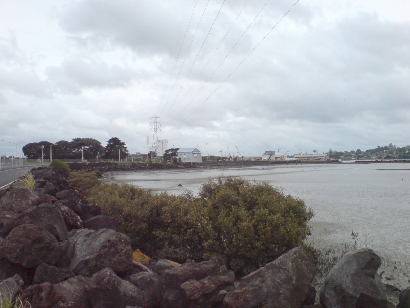 The foreshore in Onehunga Auckland City, New Zealand. Looking southeast towards the Port of Onehunga and Mangere Bride. The house of the local Sea Scouts in the middle distance. This stretch of coastline is part of a dispute between local residents and the NZTA, which wants to further widen the motorway just to the left in the picture. The local groups are asking for the motorway to be sunk into a trench, to restore access to the Manukau Harbour / restore a former beach in this location.